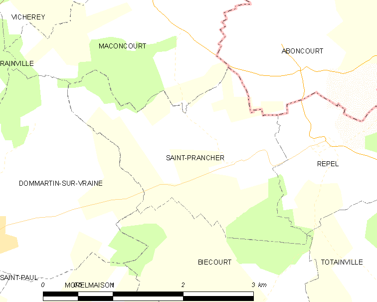 Map of French municipality Saint-Prancher